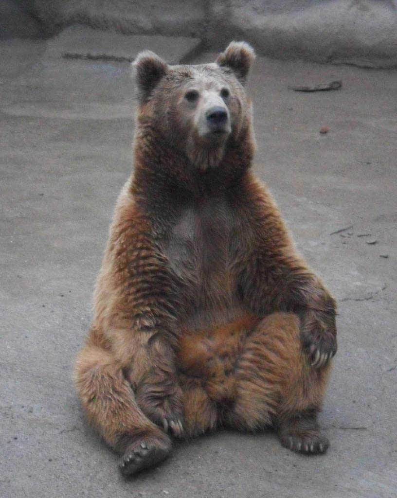 Tyan-Shan bear (ursus arctos isabellinus) in the Tashkent zoo